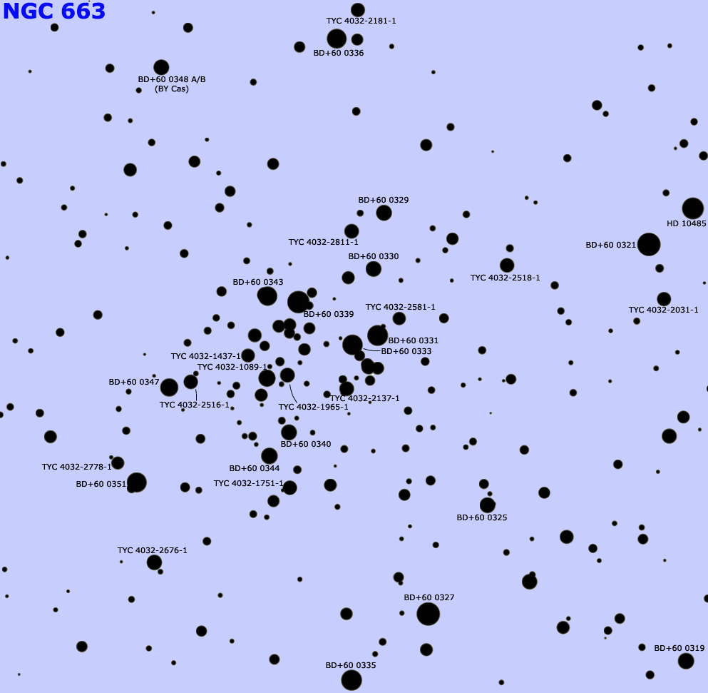 Detailed map of NGC 663